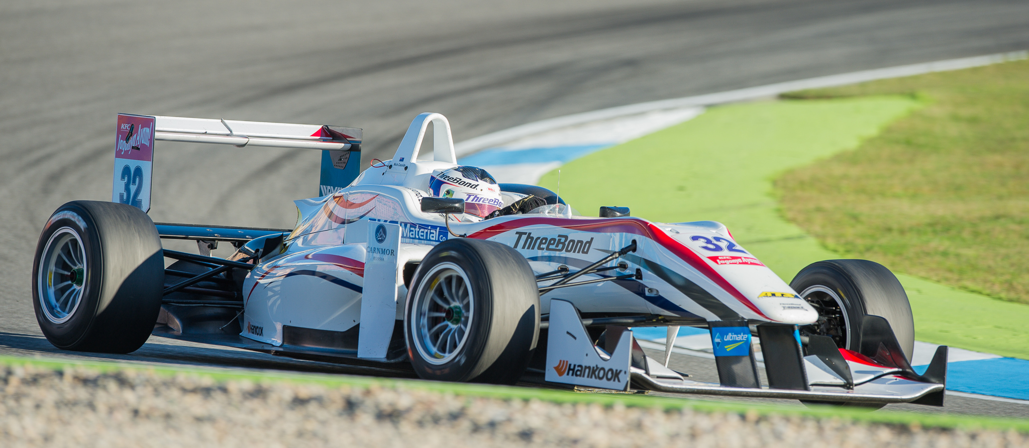 DTM,Dallara F312,Deutsche Tourenwagen Masters,F3 FIA European Championship,FIA Formel 3 Europameisterschaft,Hockenheimring,Motorsport,NBE,Neil Brown Engineering,Nick Cassidy,ThreeBond with T-Sport